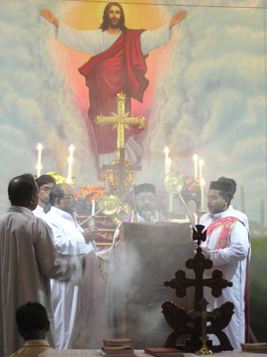 Self-made